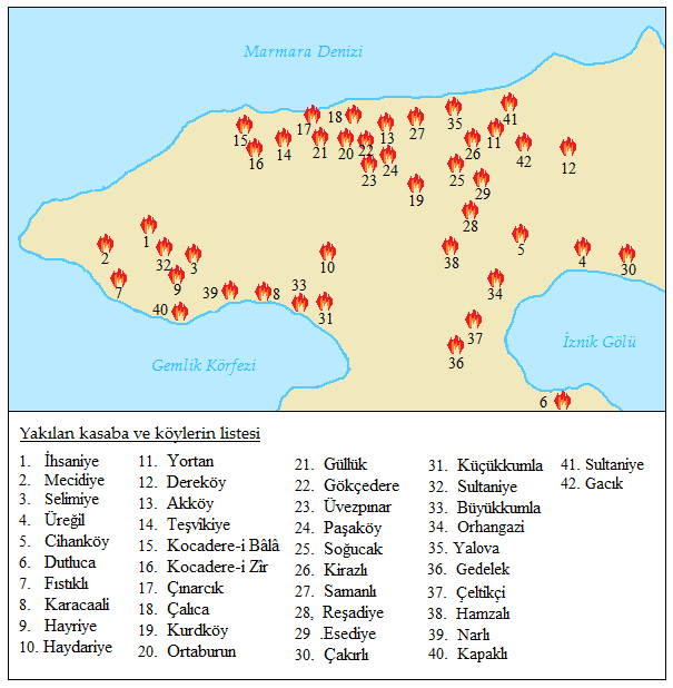 Burned Muslim villages in Yalova Peninsula by the Greek army/irregulars. Village names in Ottoman documents [1]